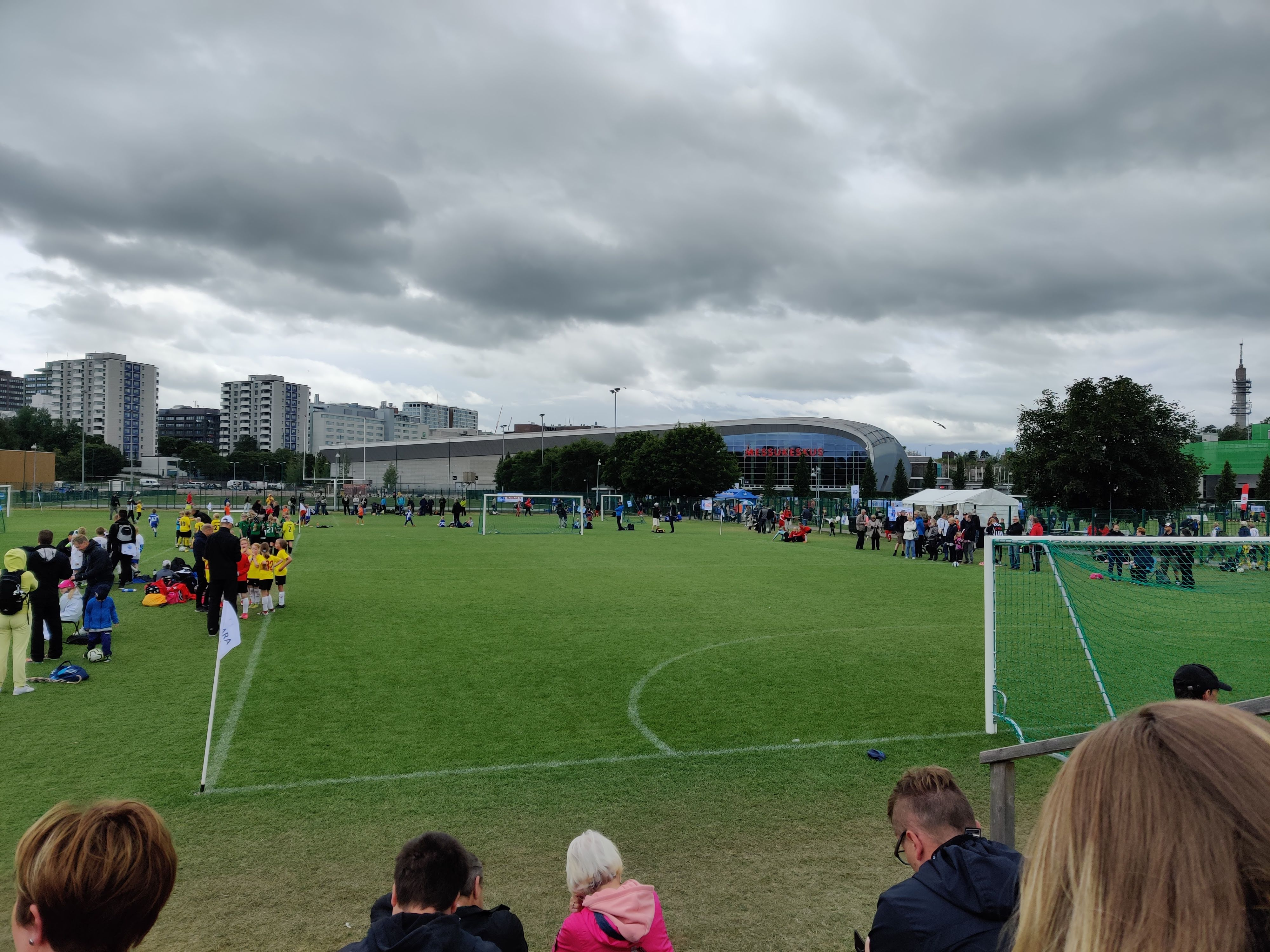 Helsinki Cup 2019 in Käpylä sports park, Helsinki, Finland